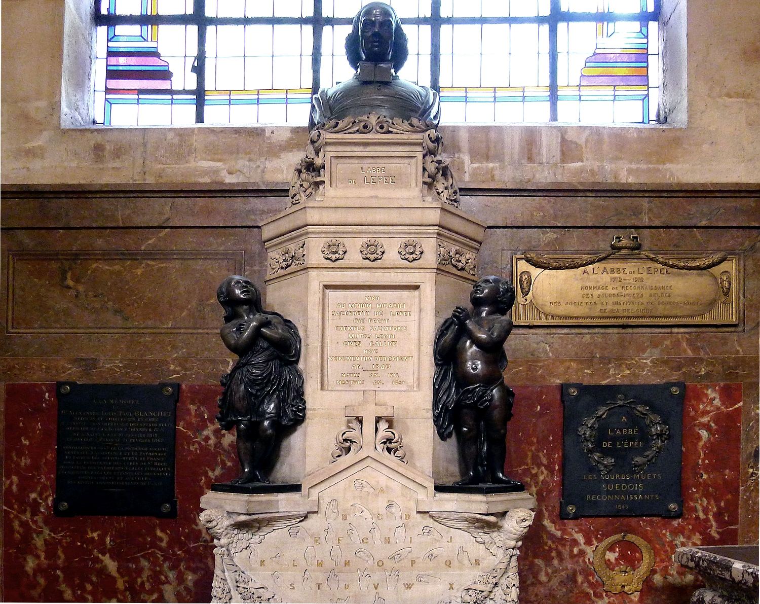 Cenotaphe abbe de l'Epee - Paris